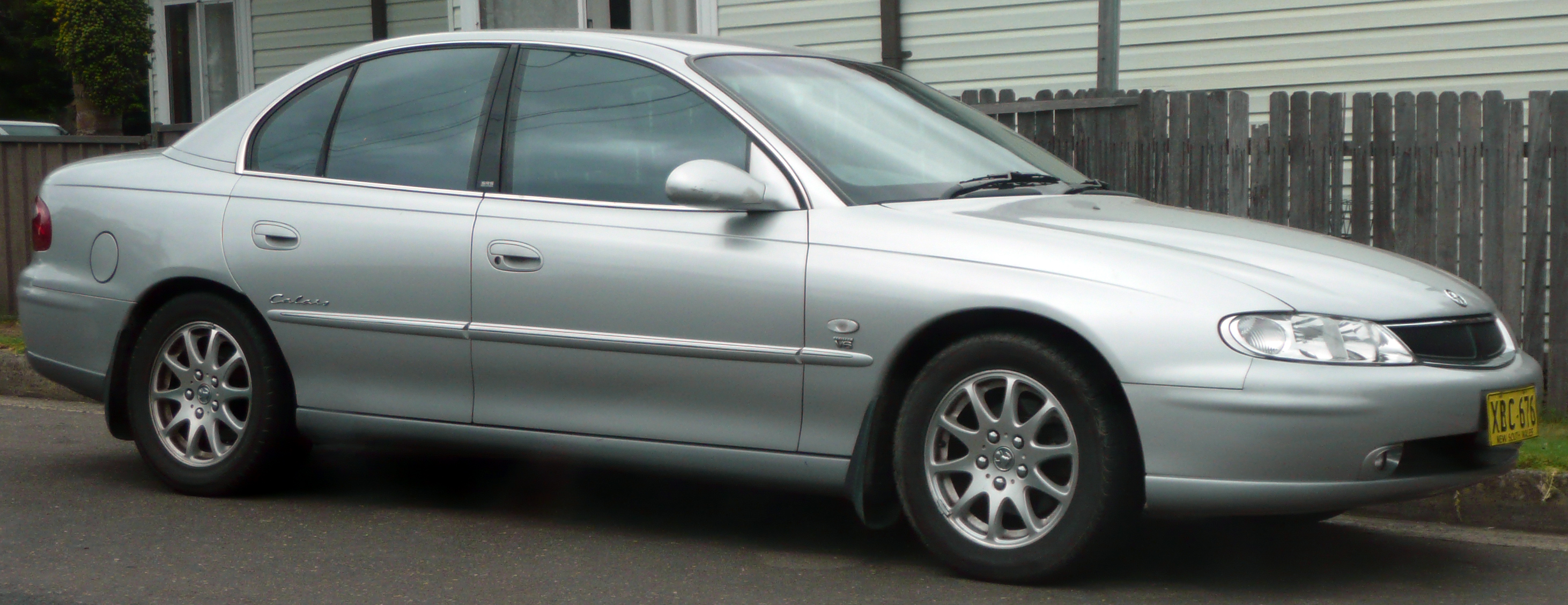 2000–2001 Holden VX Calais sedan. Photographed in Sutherland, New South Wales, Australia.